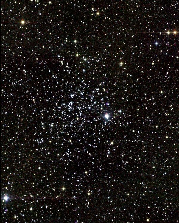 Image of M52 Credit: Atlas Image [or Atlas Image mosaic] obtained as part of the Two Micron All Sky Survey (2MASS), a joint project of the University of Massachusetts and the Infrared Processing and Analysis Center/California Institute of Technology, funded by the National Aeronautics and Space Administration and the National Science Foundation.